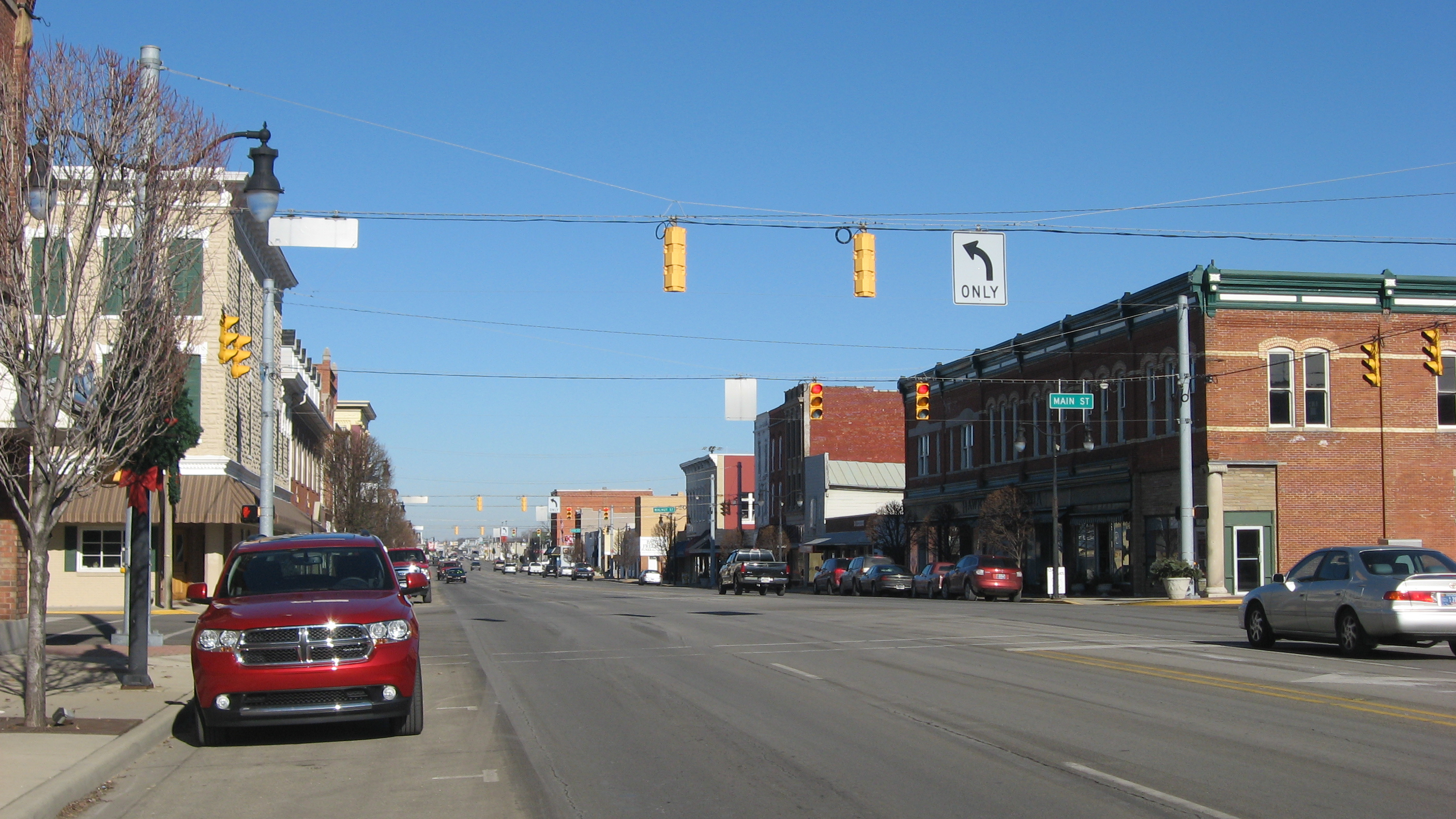 Looking north on Meridian Street (U.S. Route 27) from the Main Street intersection in downtown Portland, Indiana, United States. This block is part of the Portland Commercial Historic District, a historic district that is listed on the National Register of Historic Places.